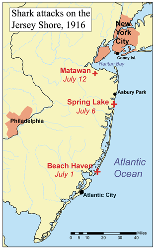 Map showing the Jersey Shore shark attacks of 1916.